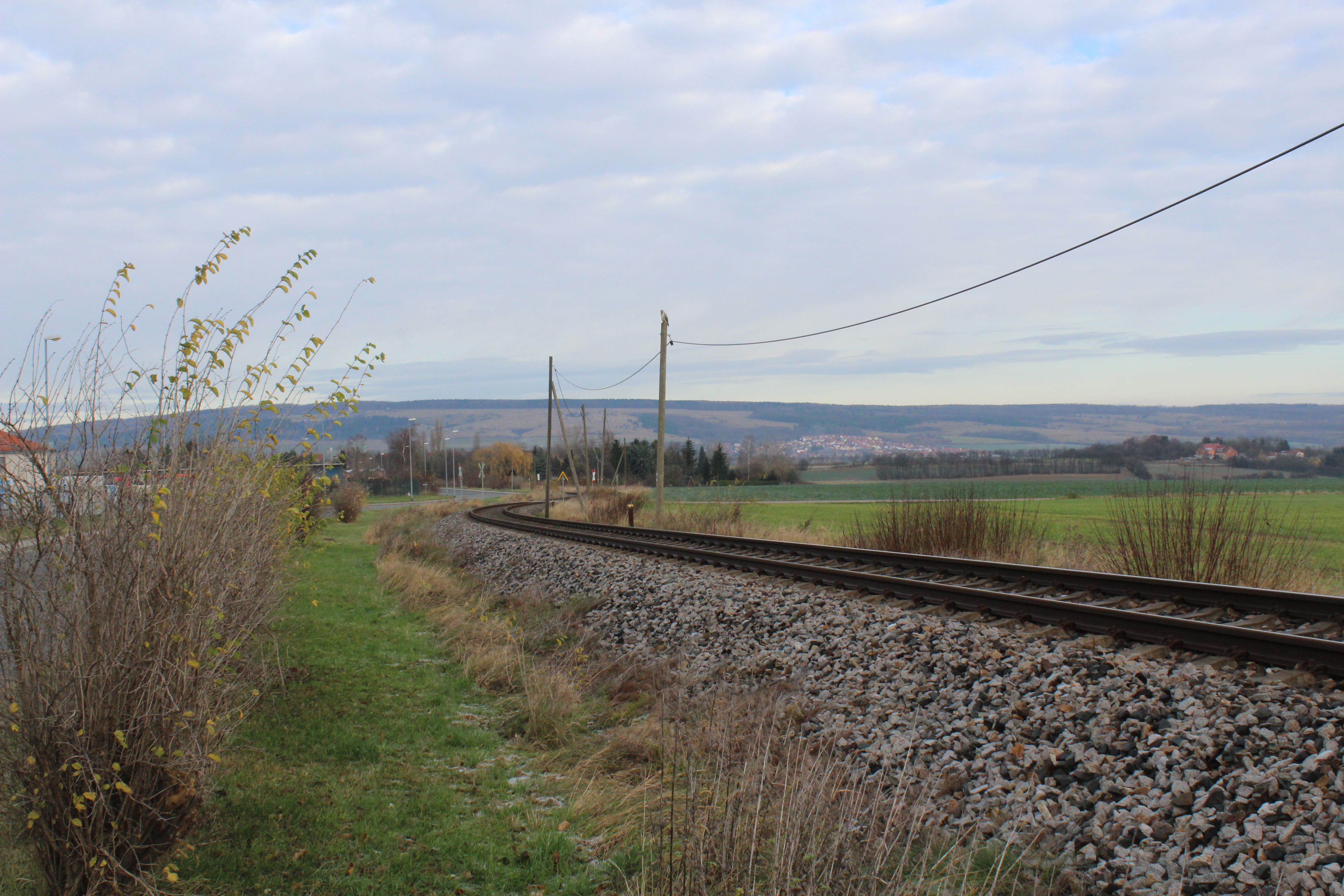 railway Weimar-Kranichfeld near to Nohra